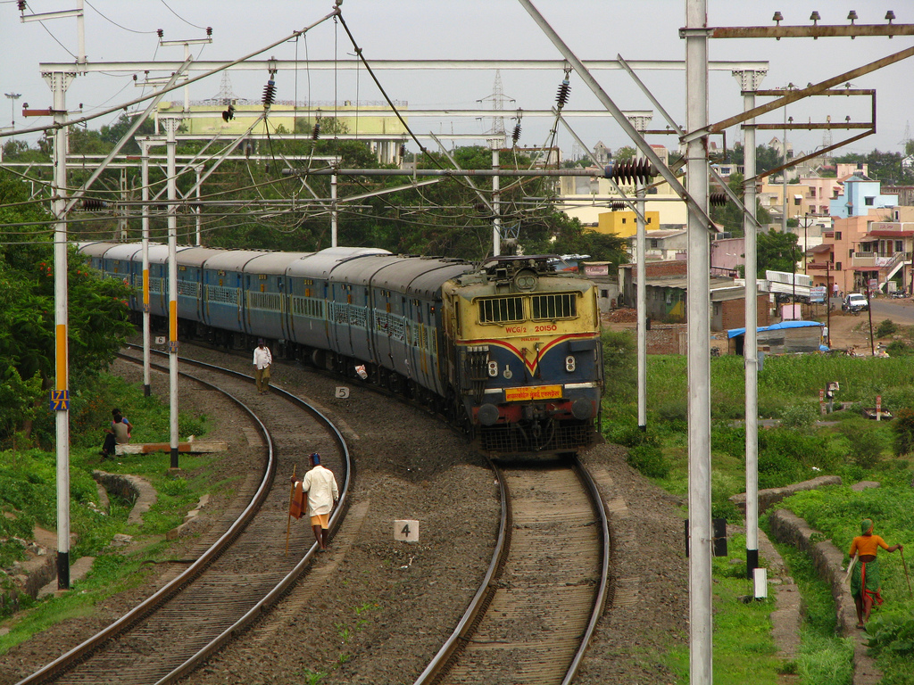 The Nagercoil Exp rounds the bend after Akurdi on its way to Bombay.